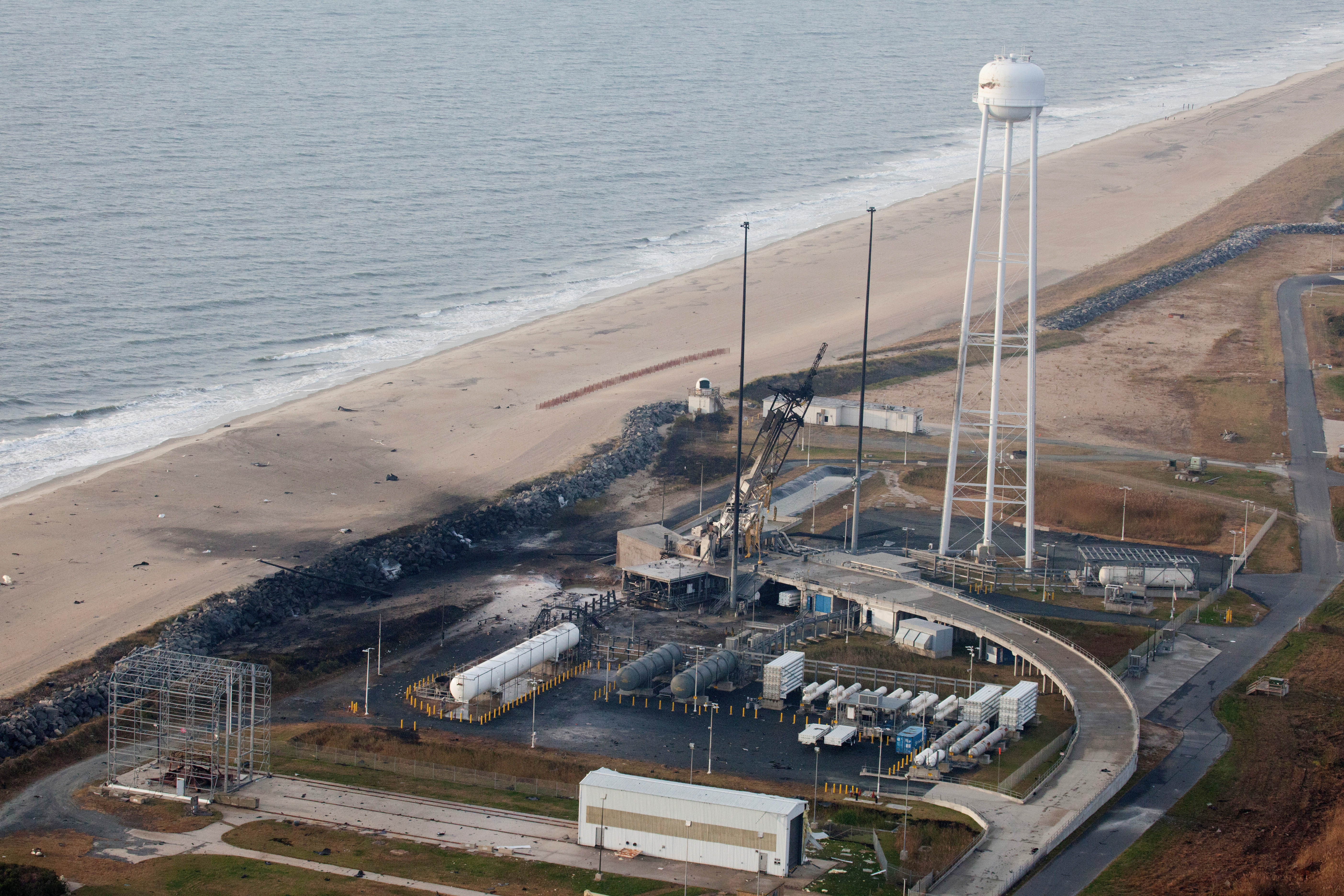 An aerial view of damage to the Wallops Island launch facilities taken by the Wallops Incident Response Team Wednesday, Oct. 29, 2014, following the failed launch attempt of Orbital Science Corp.'s Antares rocket Oct. 28, Wallops Island, VA.